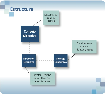 Isags en español